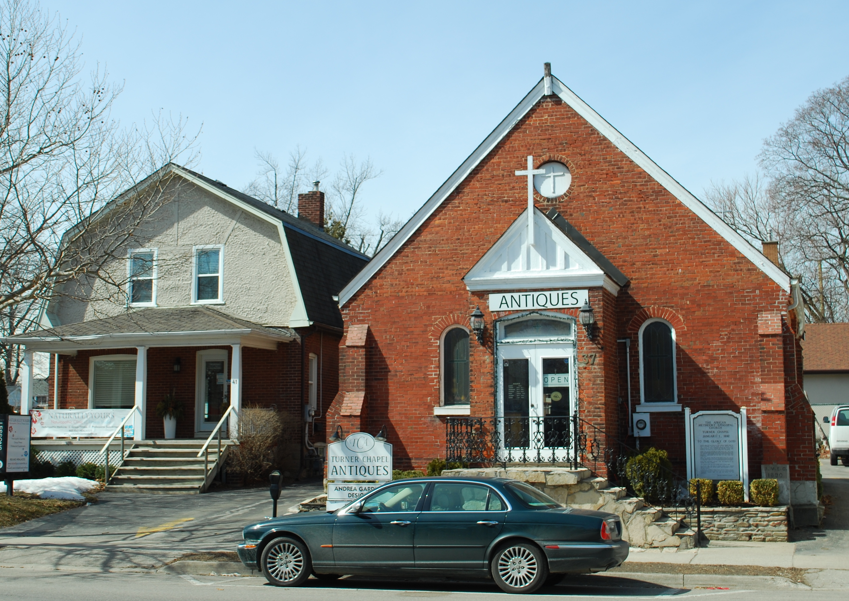 Image of the famed African Methodist Episcopalian Church in Oakville, Ontario. Known as Turner Chapel.